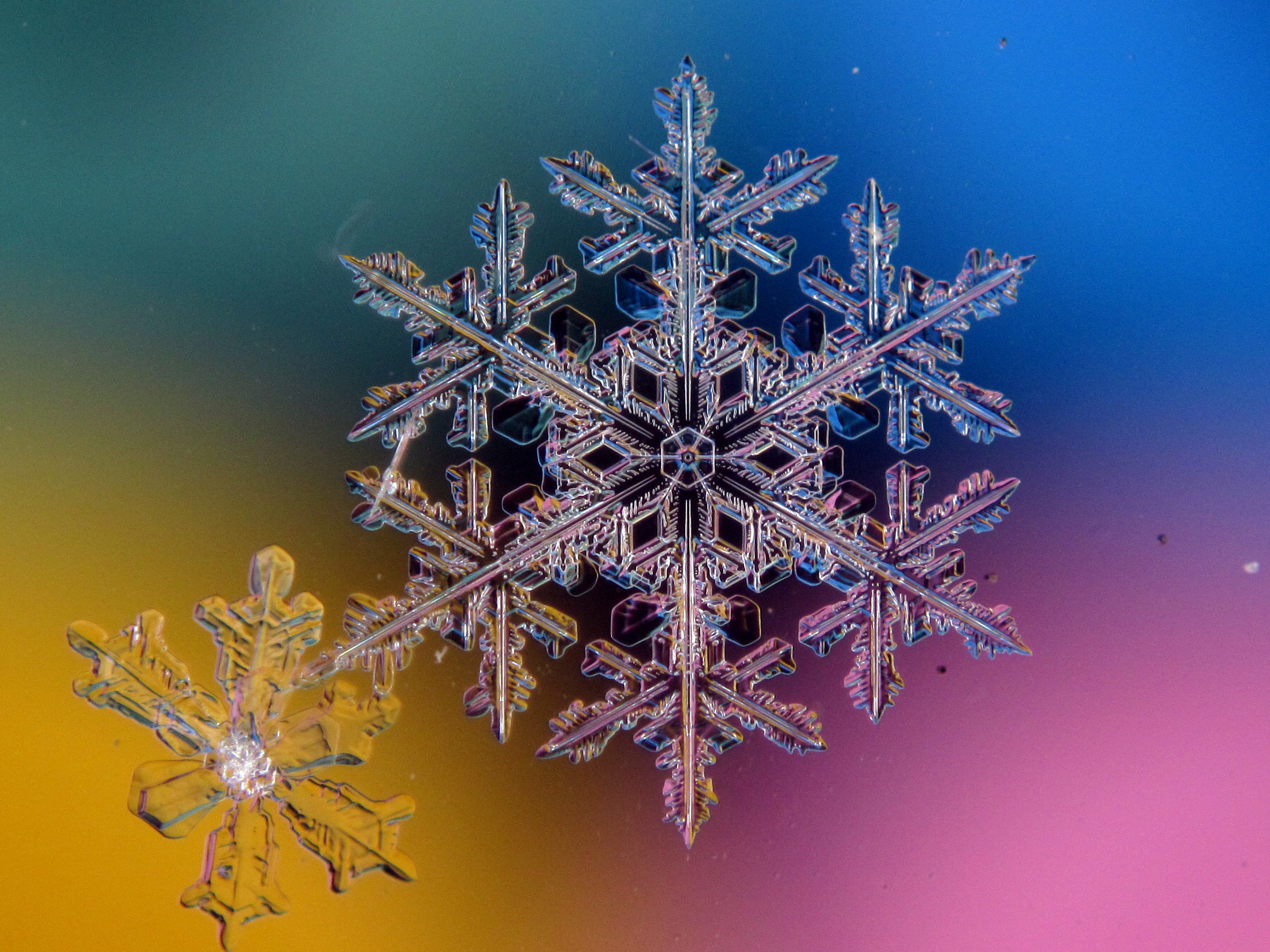 Snowflake on a multi-colored background.